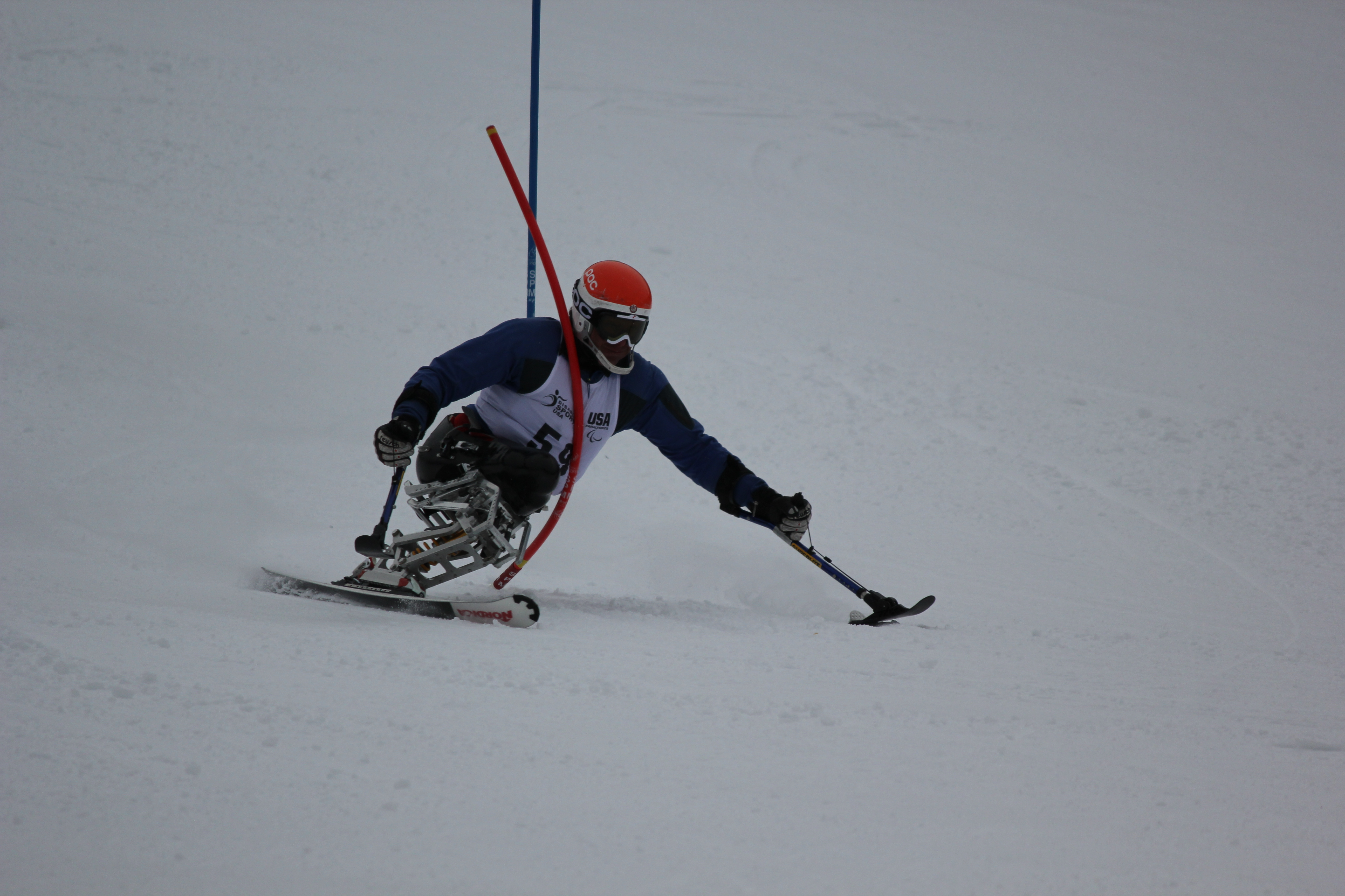 15 December 2012 on Day 4 of the IPC NorAm Cup at Copper Mountain, Colorado.